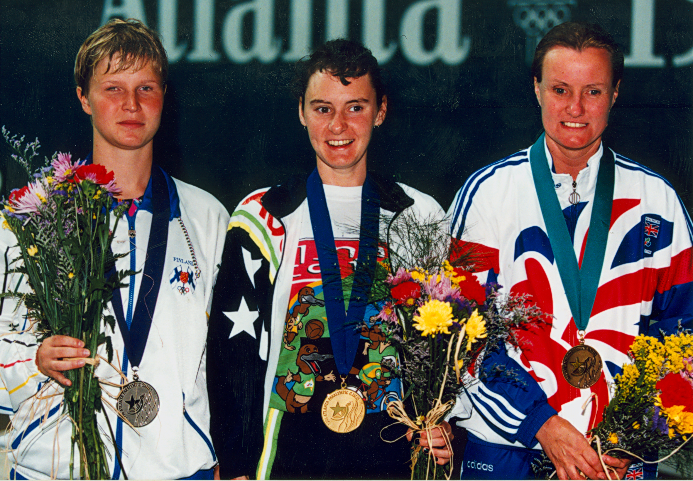 The medals winners of the women's 100m butterfly B1 class at the 1996 Summer Paralympics in Atlanta. From left to right, Eeva Riitta Fingerroos of Finland (silver), Tracey Cross of Australia (gold) and Janice Burton of Great Britain (bronze).